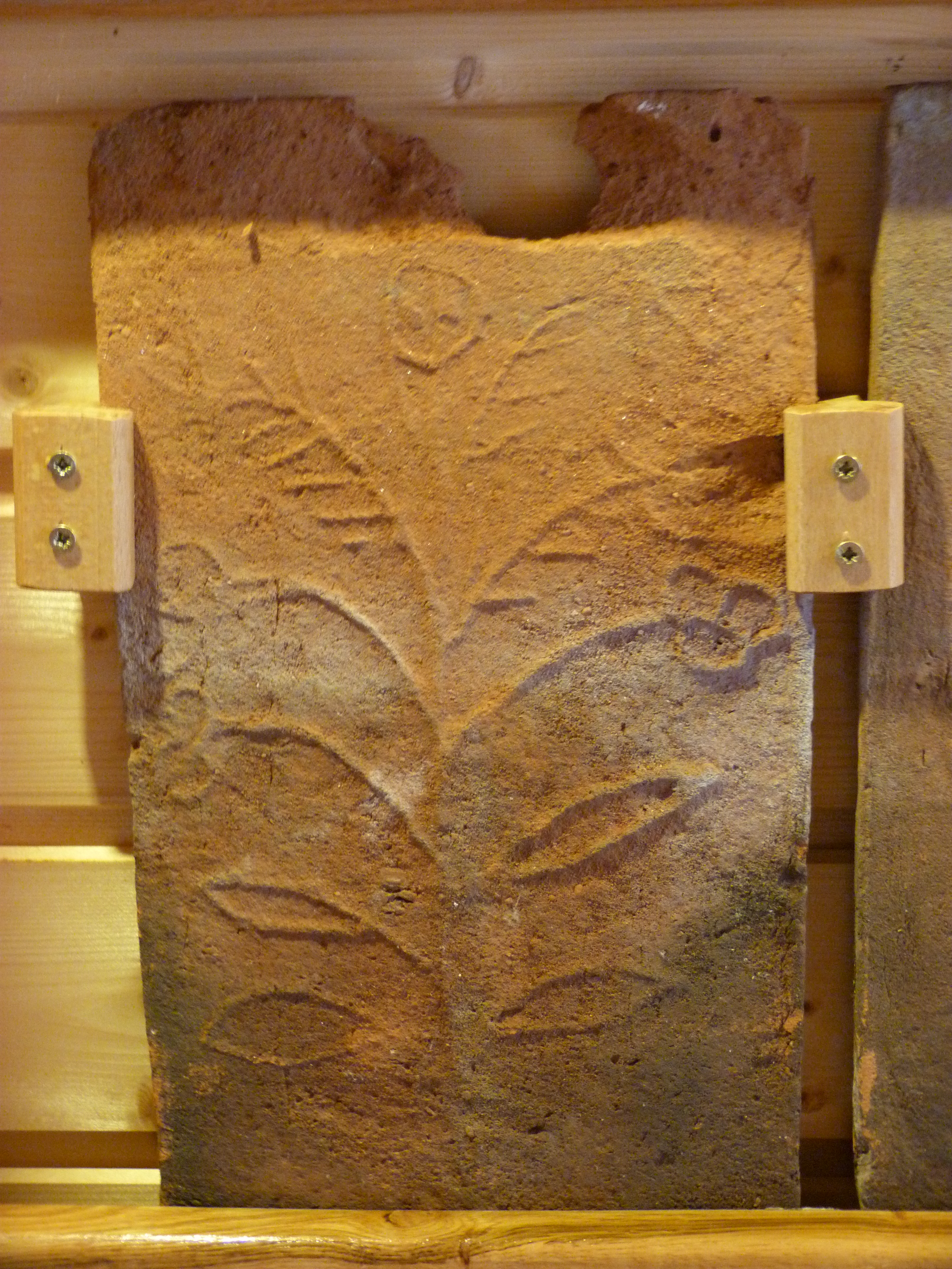 The Puszta belt stretching from the Altai Mountain to Őrség, Carpathian Basin have it's Hieroglyph writing. This writing is in use even today in the form of the székely hieroglyph writing (székely-magyar rovásírás). You can find this writing – among other exemples - on the 7500 years old Szentgyörgyvölgyi cow, the Hungarian Saint Crown and on the Sindü-s too. Varga Géza writing historian proved this in his works. Tags: Hungarian Hieroglyph Writing Velemér Varga Géza Hieroglyph Sindü Museum Szentgyörgyvölgy Sindü Sources Czakó Gábor Vita nélkül ©© Derzsi Elekes Andor, Budapest, 2015, Published in the Metapolisz DVD line. You are authorised to use this photo under Creative Commons – even for commercial, for profit purposes. The photo must be attributed to Derzsi Elekes Andor. All of the photos and vids in the Metapolisz DVD line are under Creative Commons and can be used even for commercial – for profit – purposes. Recommended Citation Derzsi Elekes Andor: Metapolisz DVD line